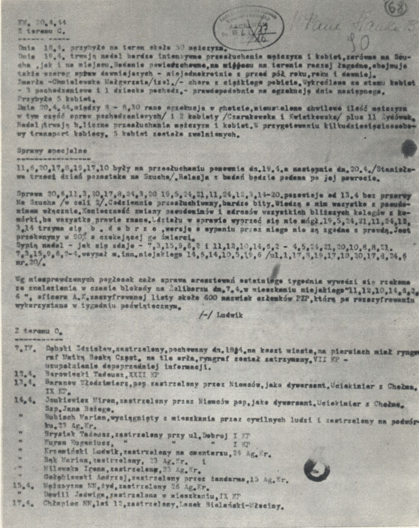 Conspirational report (partially encrypted) prepared by Władysław Bartoszewski aka “Ludwik” – deputy chief of “Prison cell” in underground Government Delegate's Office at Home. The report were prepared in April 1944 and it concerns the situation of Polish political prisoners in Nazi-German prisons and detention centers in occupied Warsaw.